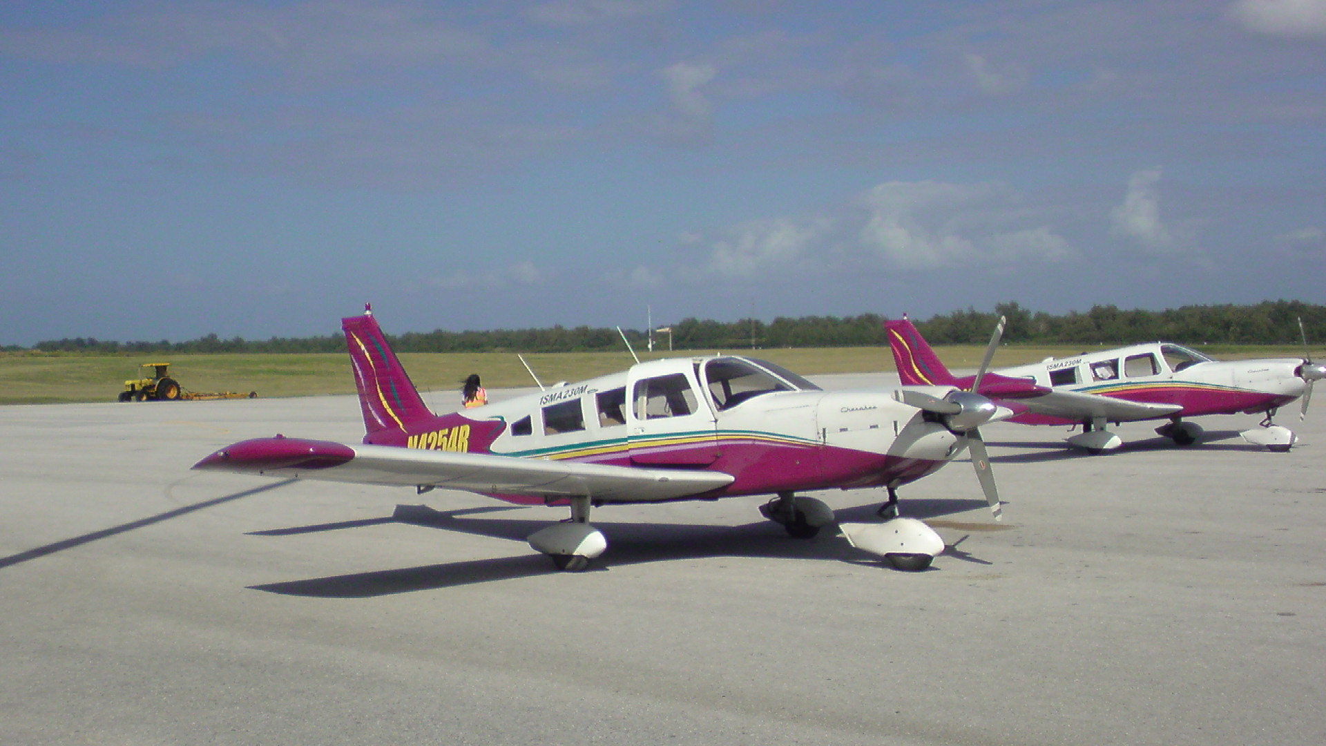 Piper PA-32-300